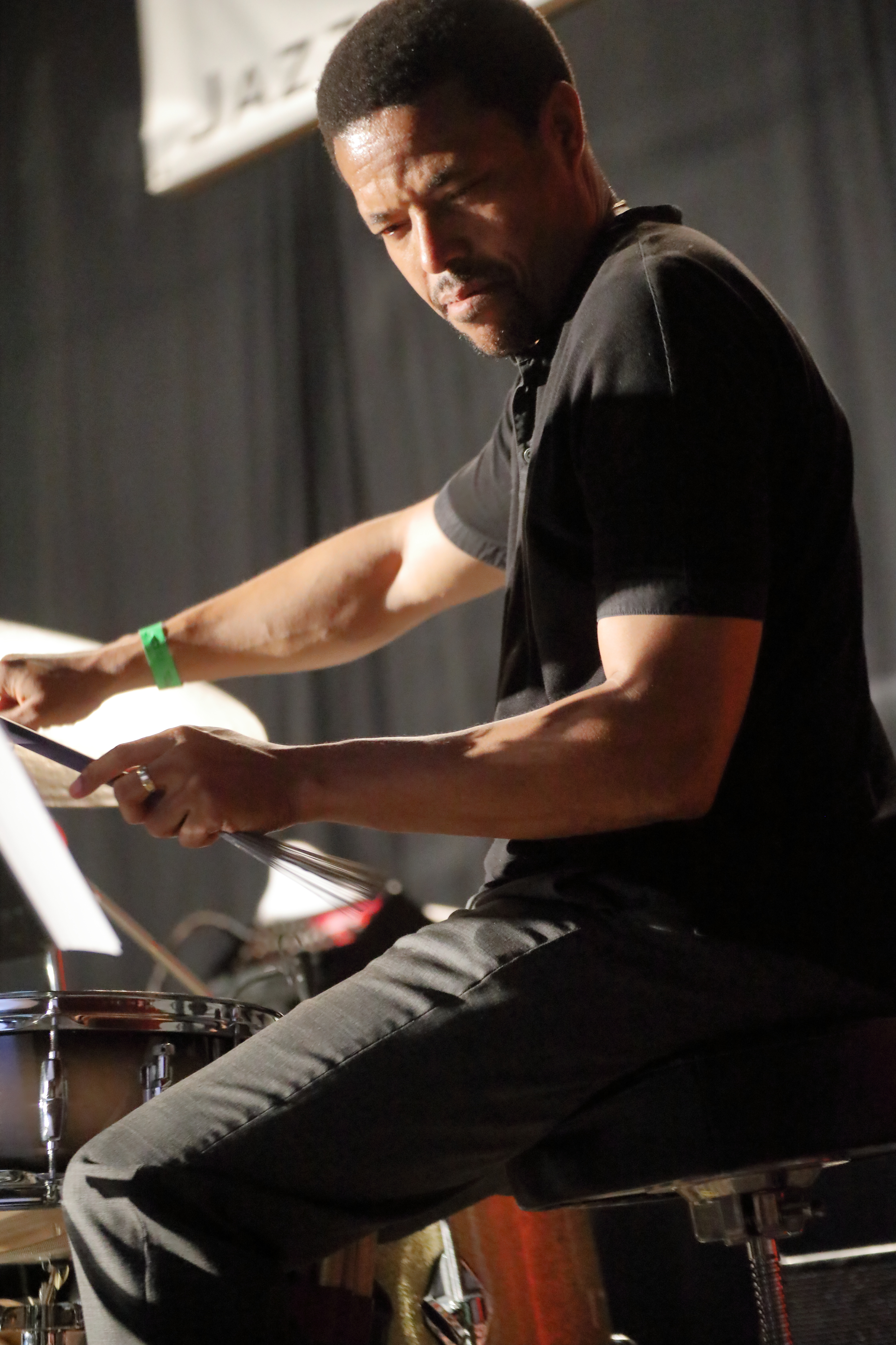 The Florian Weber Quartet with Ralph Alessi (tr) at INNtöne Jazzfestival 2019. Michel Benita (db) & Nasheet Waits (dr).